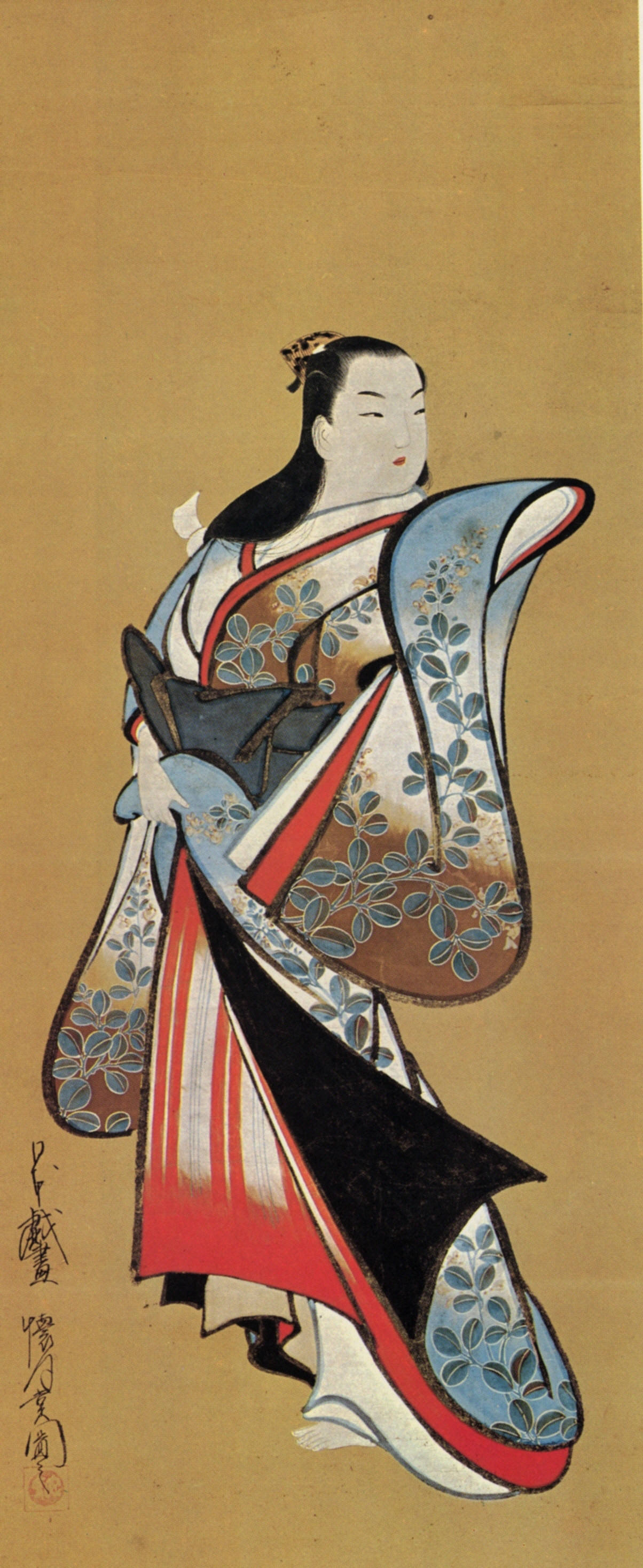 Bijin (美人, "beauty"). Color on silk.